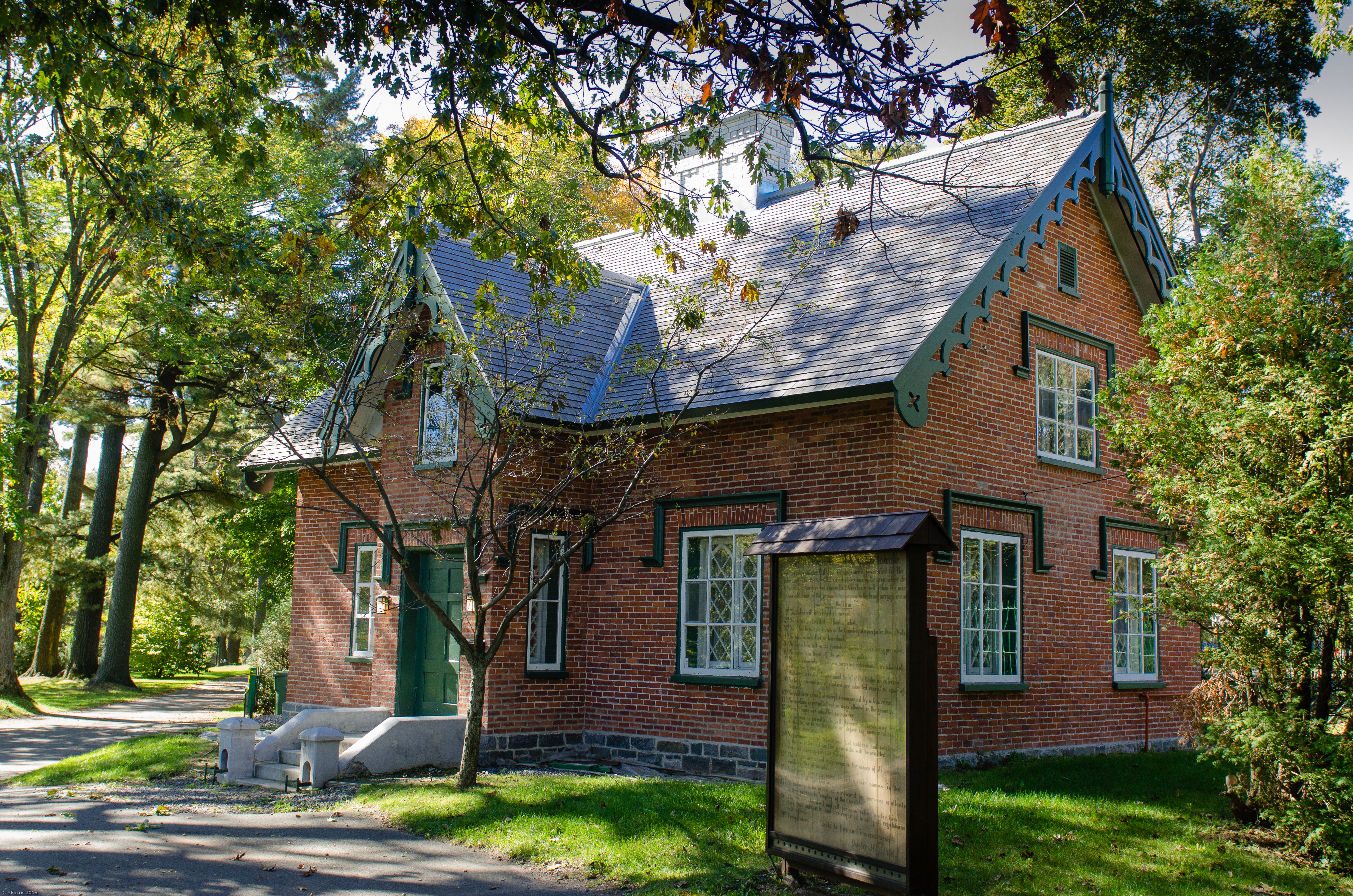 Mount Hermon Cemetery, guardian building. 1801 Saint-Louis Road, Quebec City